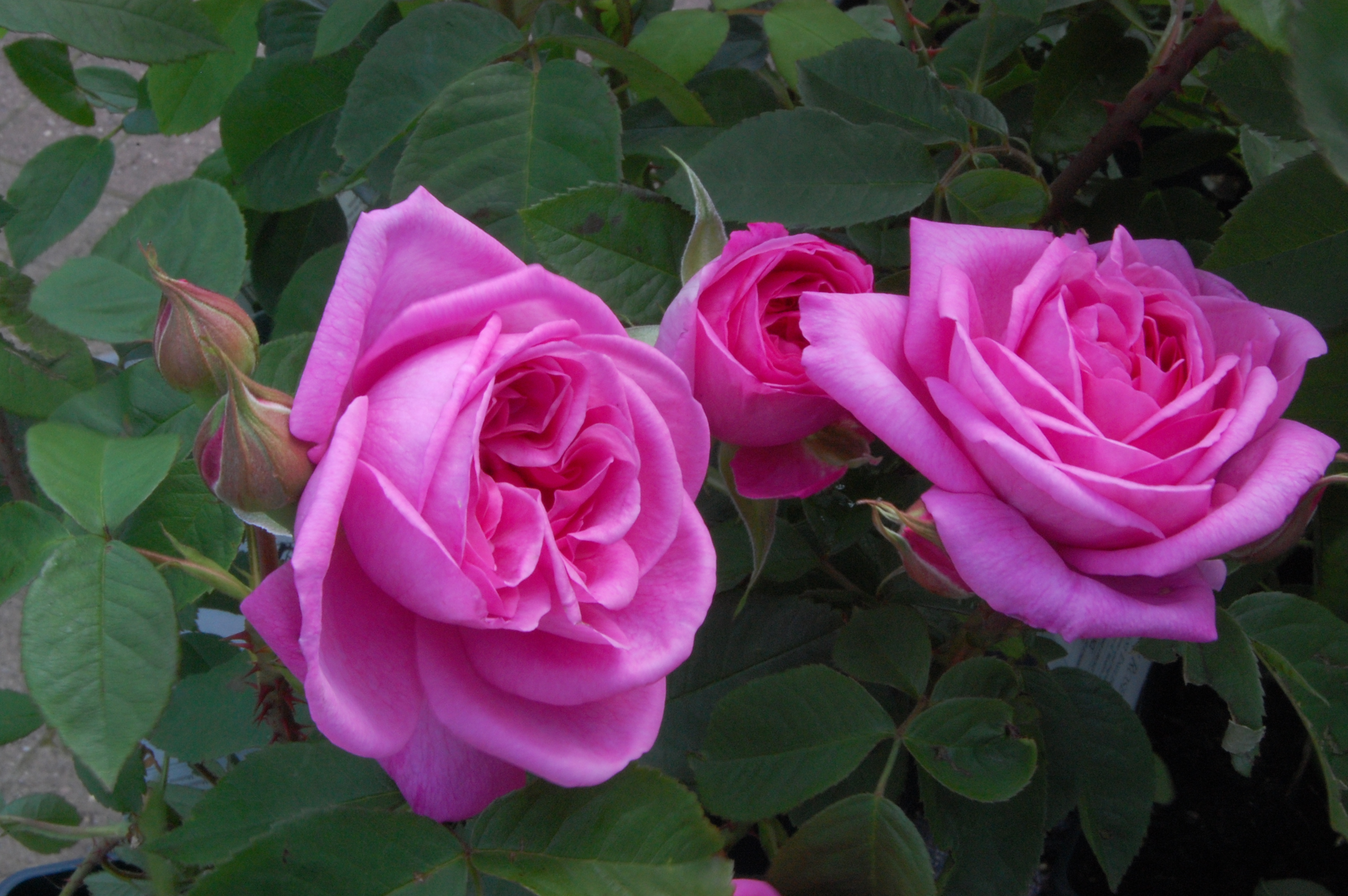 Rose 'Gertrude Jekyll' on sale at a garden centre in the English midlands.